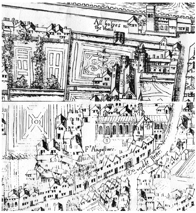 Austin Friars depicted in the mid-16th century